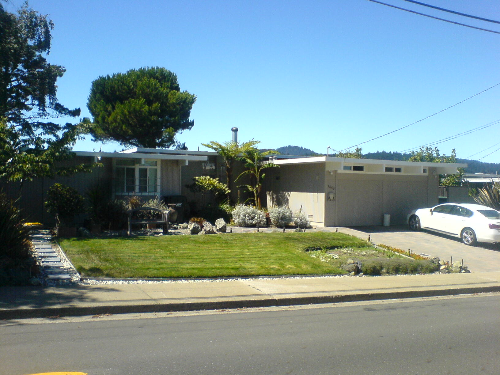 An Eichler home in the San Mateo highlands. Photo taken September, 2007.